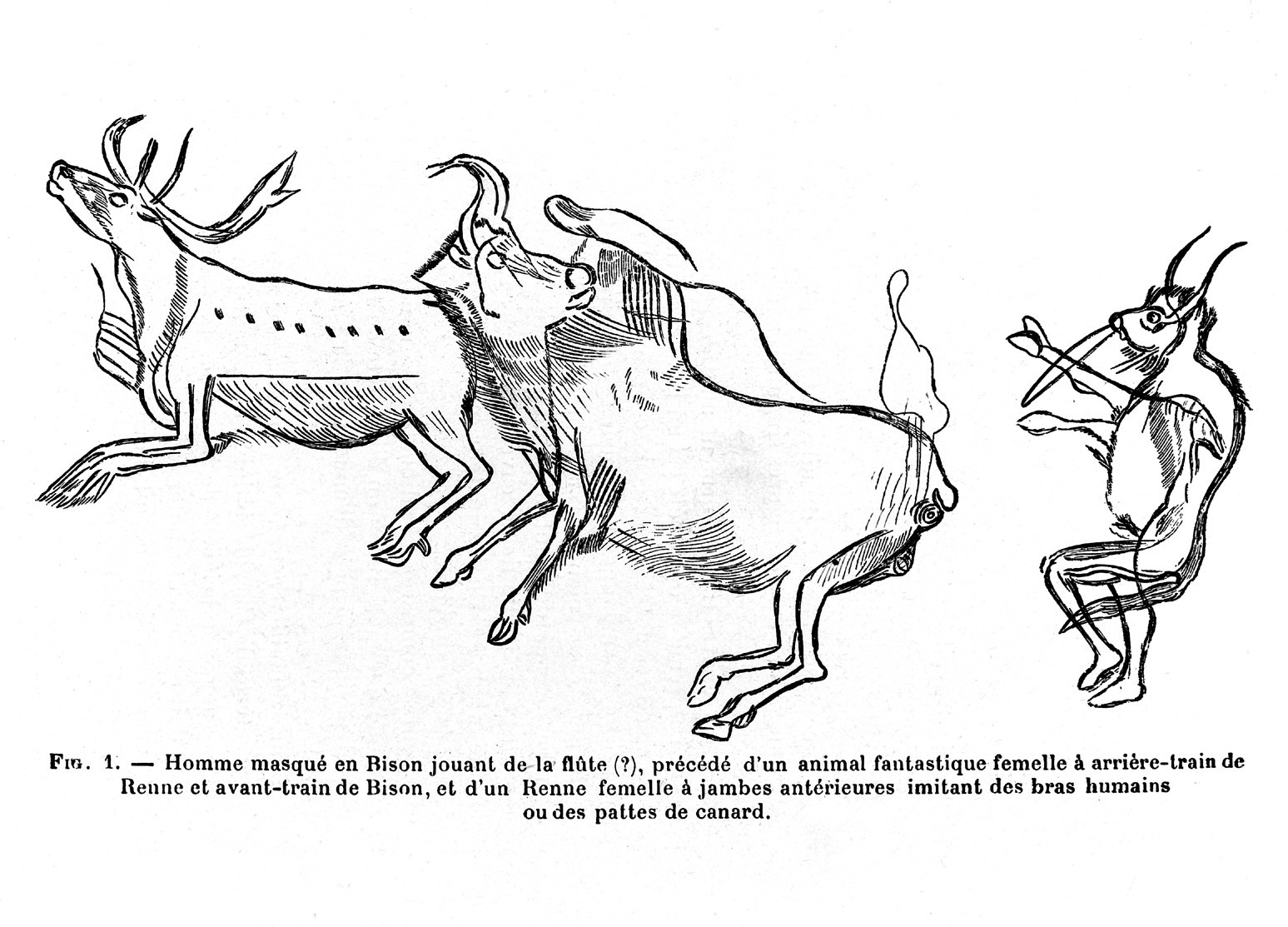 Cave of the Trois-Frères, Montesquieu-Avantès, Ariège, France. Sketch made by Henri Breuil (Un dessin de la grotte des Trois frères (Montesquieu-Avantès) Ariège, 1930), of an engraving in the cave room called the Sanctuary, representing a man masquerading as a bison, apparently lifting his left knee and holding in his mouth the extremity of some undefined device that looks like a small bow ; and two cows nearby it. The human figure has long been known as "the little shaman with a musical bow (or a flute)" ("little" because in the same room is a larger engraving of another masked figure, that of the iconic dancing shaman). These figures are part of a large engraved panel depicting many animals (only one human figure, this one here), in a confusing style which the simplified lines of this sketch do not convey. Breuil made this particular drawing to isolate these three, trying to make sense of the weird human figure. In 1996, Demouche et al. discovered that the human figue is not standing up but walking on his hands and knees and the image tilted 90° to the right, thus putting an end to the use of this picture to "prove" the existence of prehistoric music.